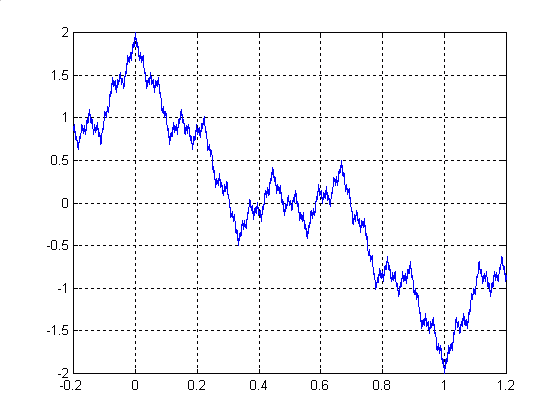 Weierstrass function, a=0.5, b=3